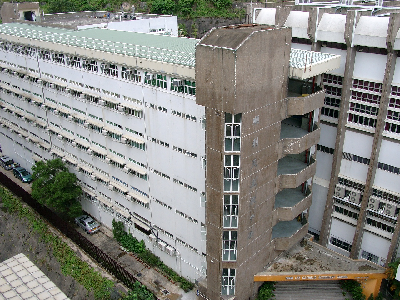 Shun Lee Catholic Secondary School